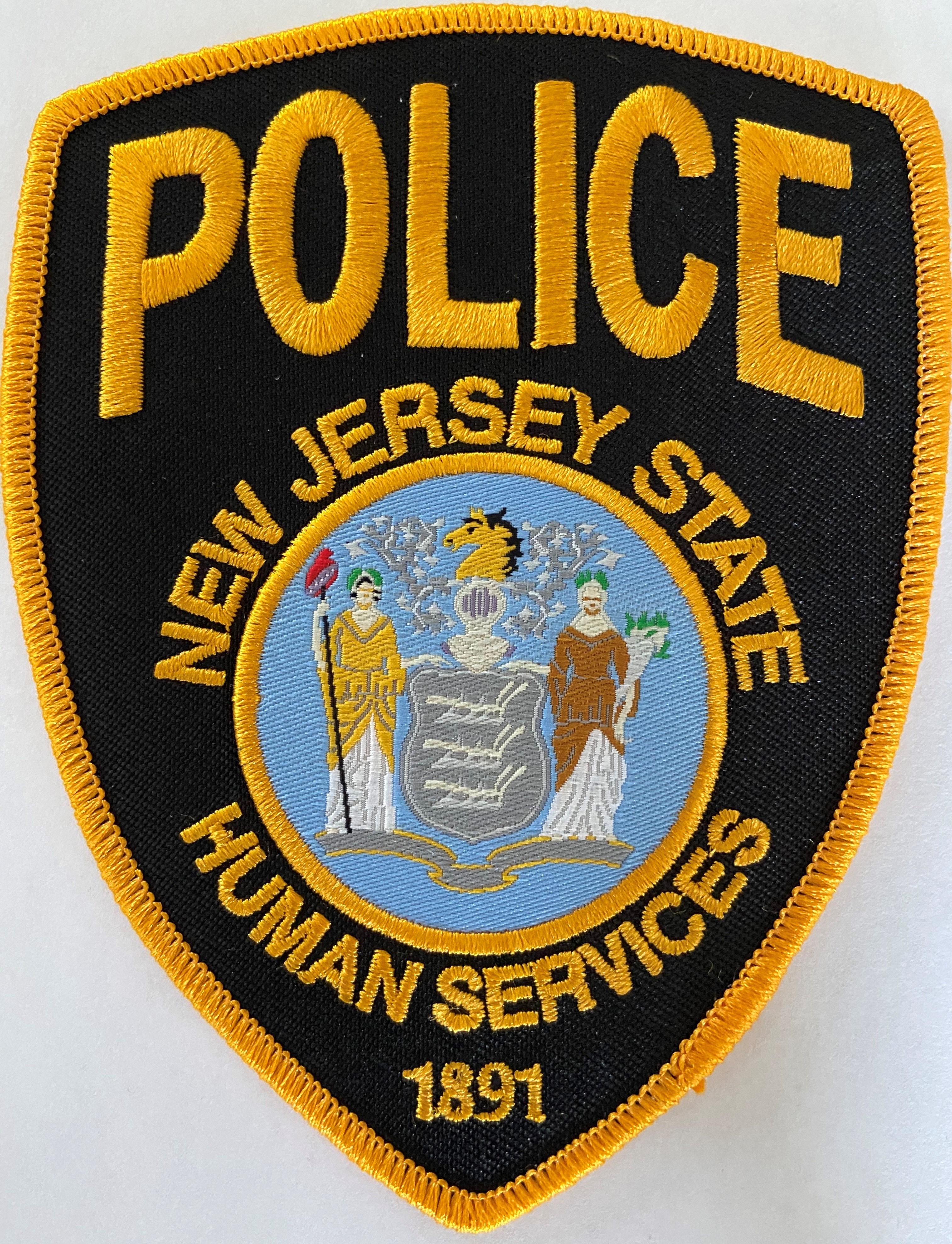 New Jersey State Human Services Police Patch